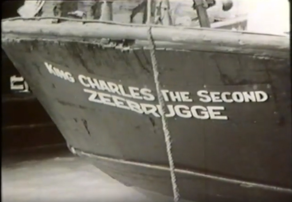 Trawler which wandered into British territorial waters in order to test an old Royal Decree from King Charles II in British Courts.